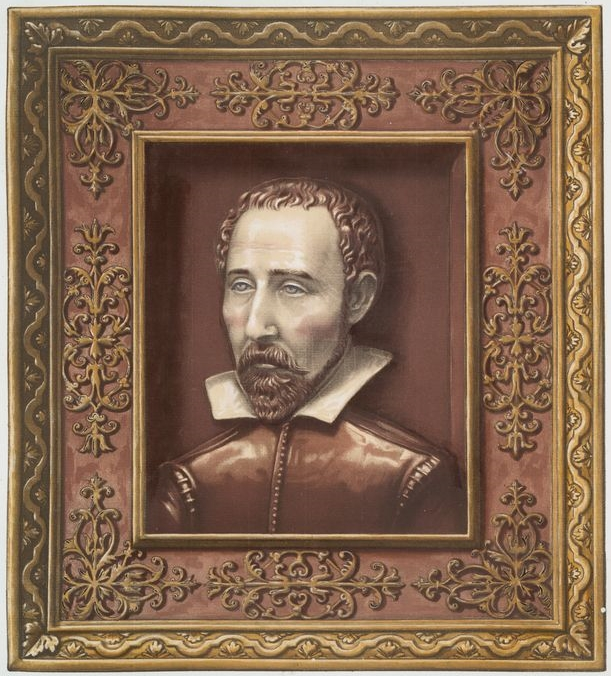 Bernard Palissy, self-portrait in faience, from the collection of Baron Anthony de Rothschild in London. Hand-coloured lithograph from Alexandre Sauzay & Henri Delange, Monographie de l'œuvre de Bernard Palissy, suivie d'un choix de ses continuateurs ou imitateurs, Paris, 1862.